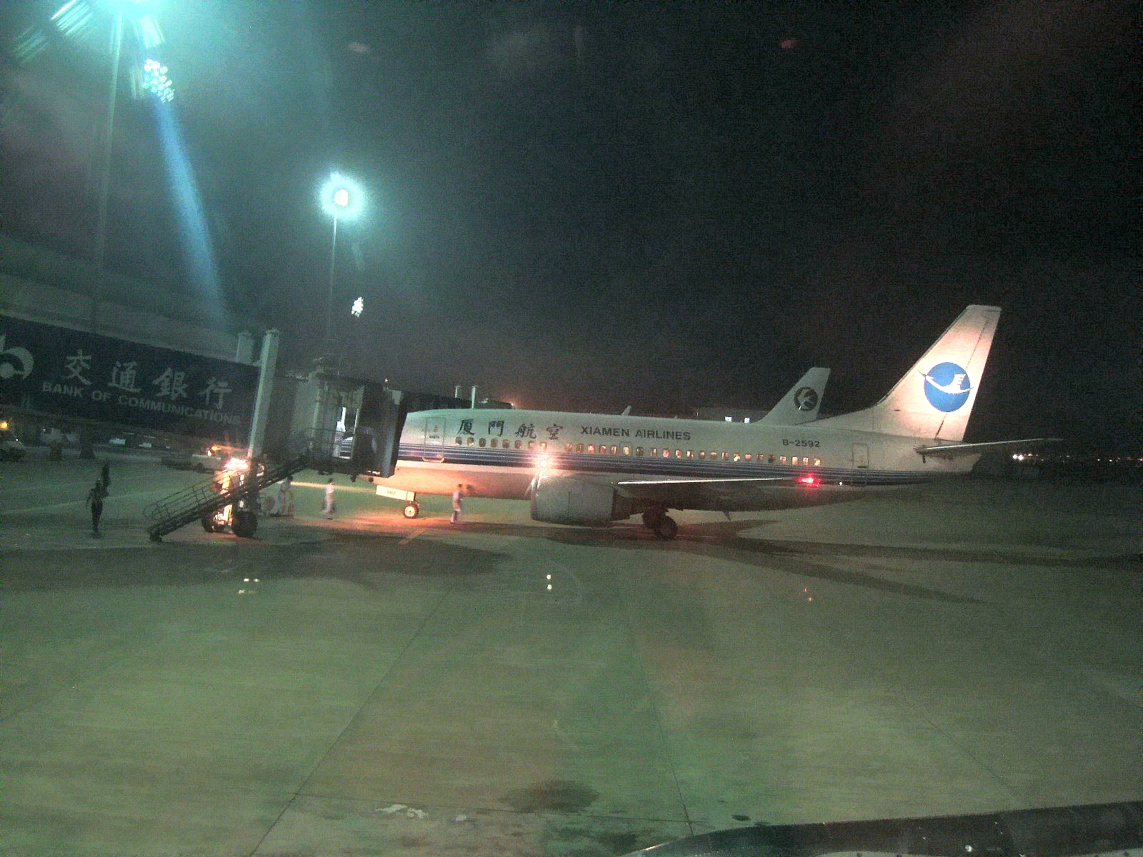 This image is licensed to use under the terms outlined below.